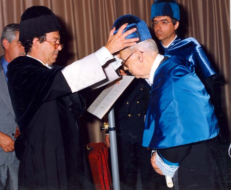 UAM vice-chancellor Raúl Villar gives the biretta to Eugenio Morales Agacino on his honorary degree act (1998).